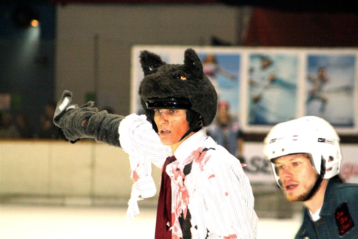 Impression from the game ET Lions versus Aachen Steelers at the Ice hockey competition Uni-Cup 2009 of the University Sports Centre of Aachen University for the ThyssenKrupp-Trophy, Aachen, Germany